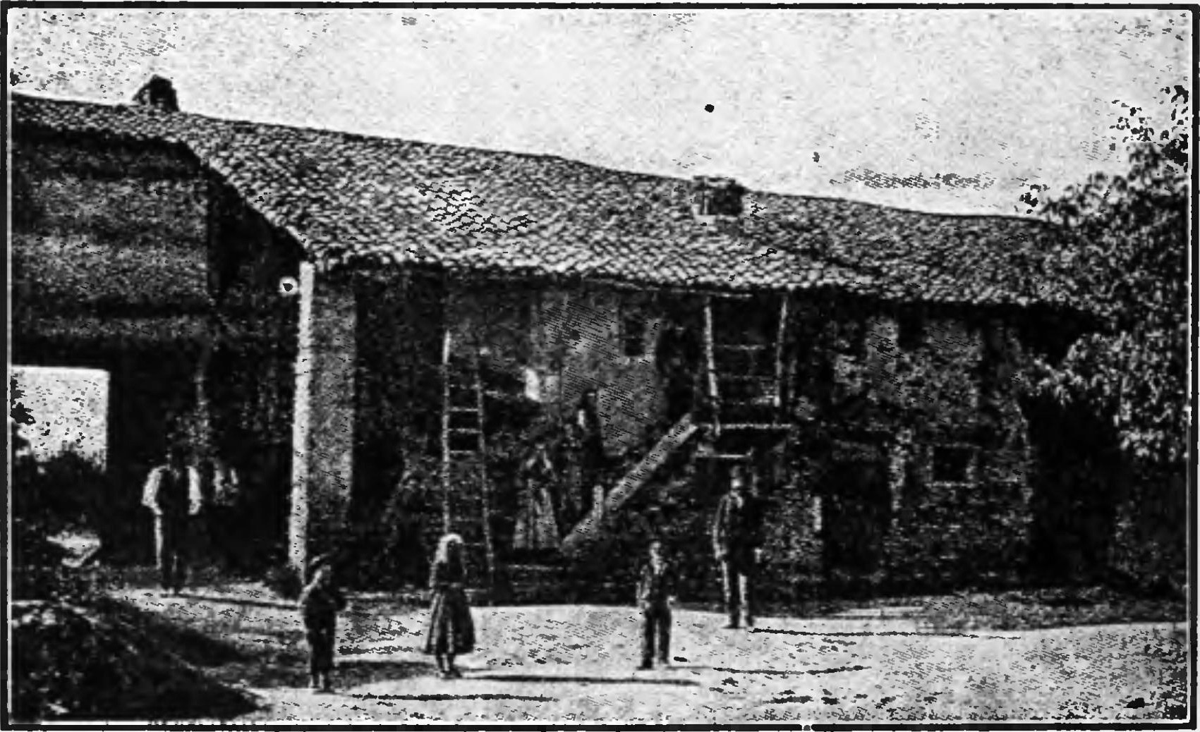 Image from The Venerable Don Bosco (1916) The Farm-House where Don Bosco was born, 1815.